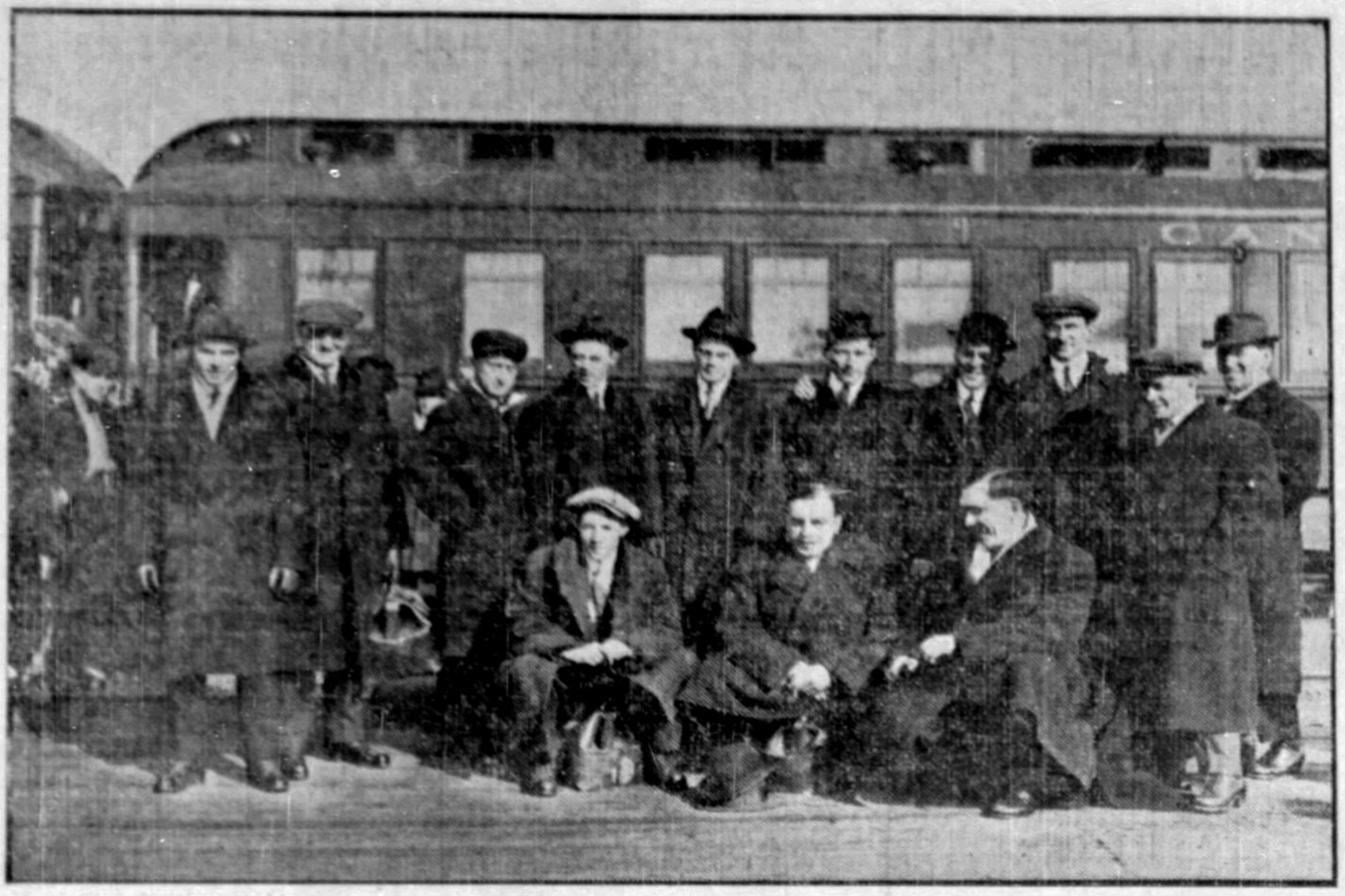 Ice hockey team of Grand-Mère (Québec) of the Interprovincial Amateur Hockey Union (IAHU) in 1914.